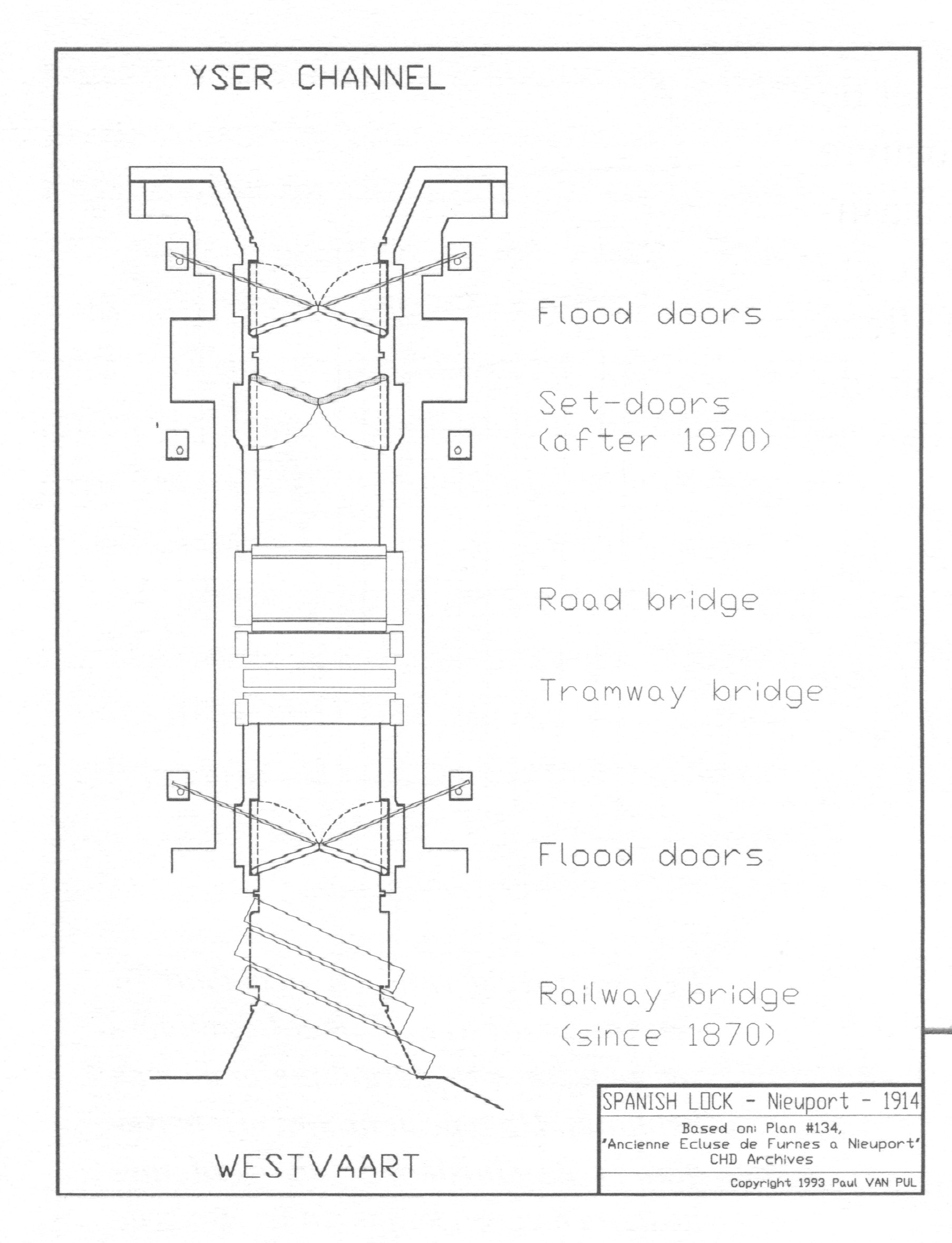 Sluice called "Kattesas"; Situation october 1914